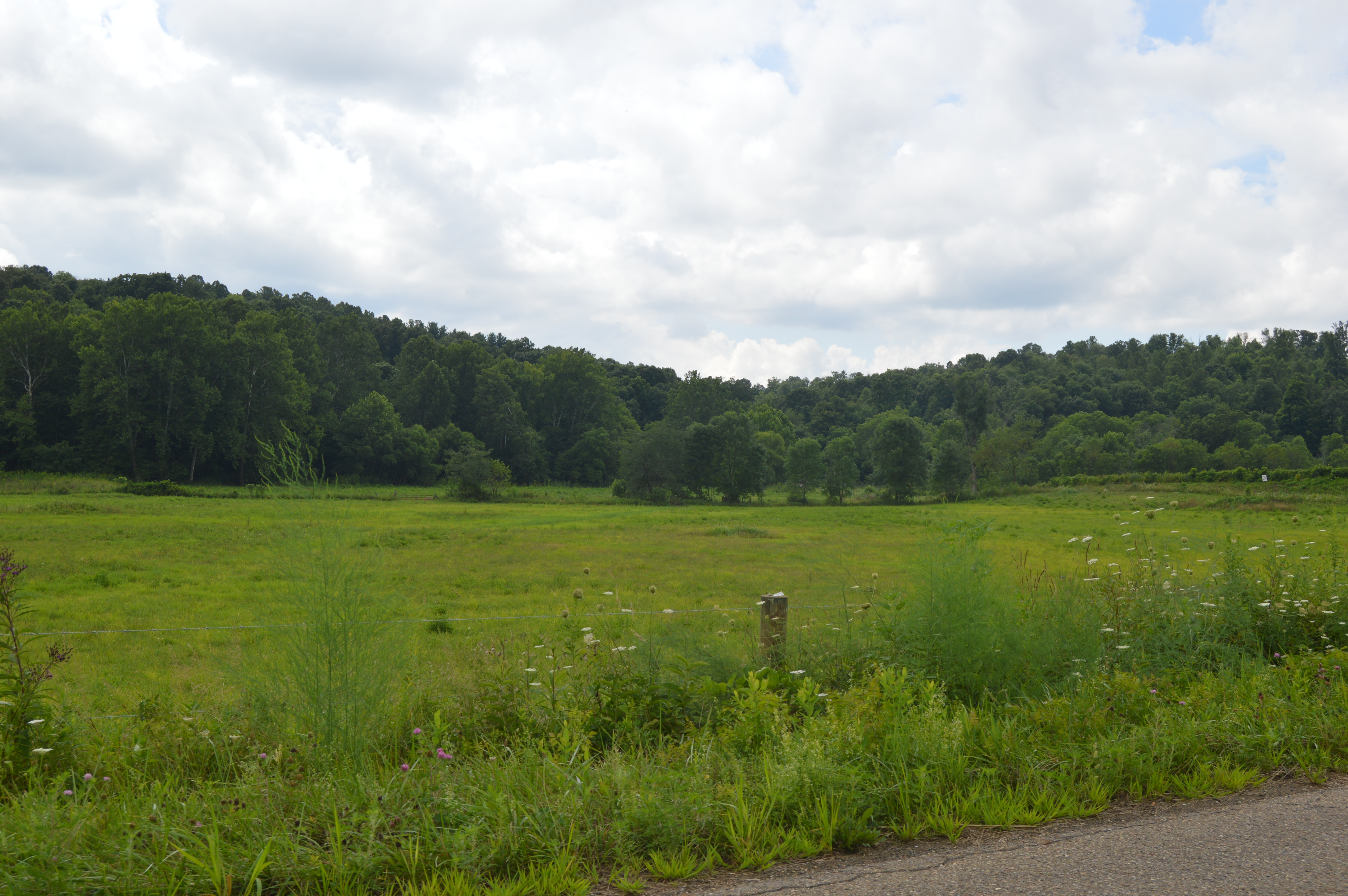 Open countryside on the southern side of Carlisle Road immediately east of the Ashcraft Road intersection, north of Frazeysburg, in Jackson Township, Muskingum County, Ohio, United States.